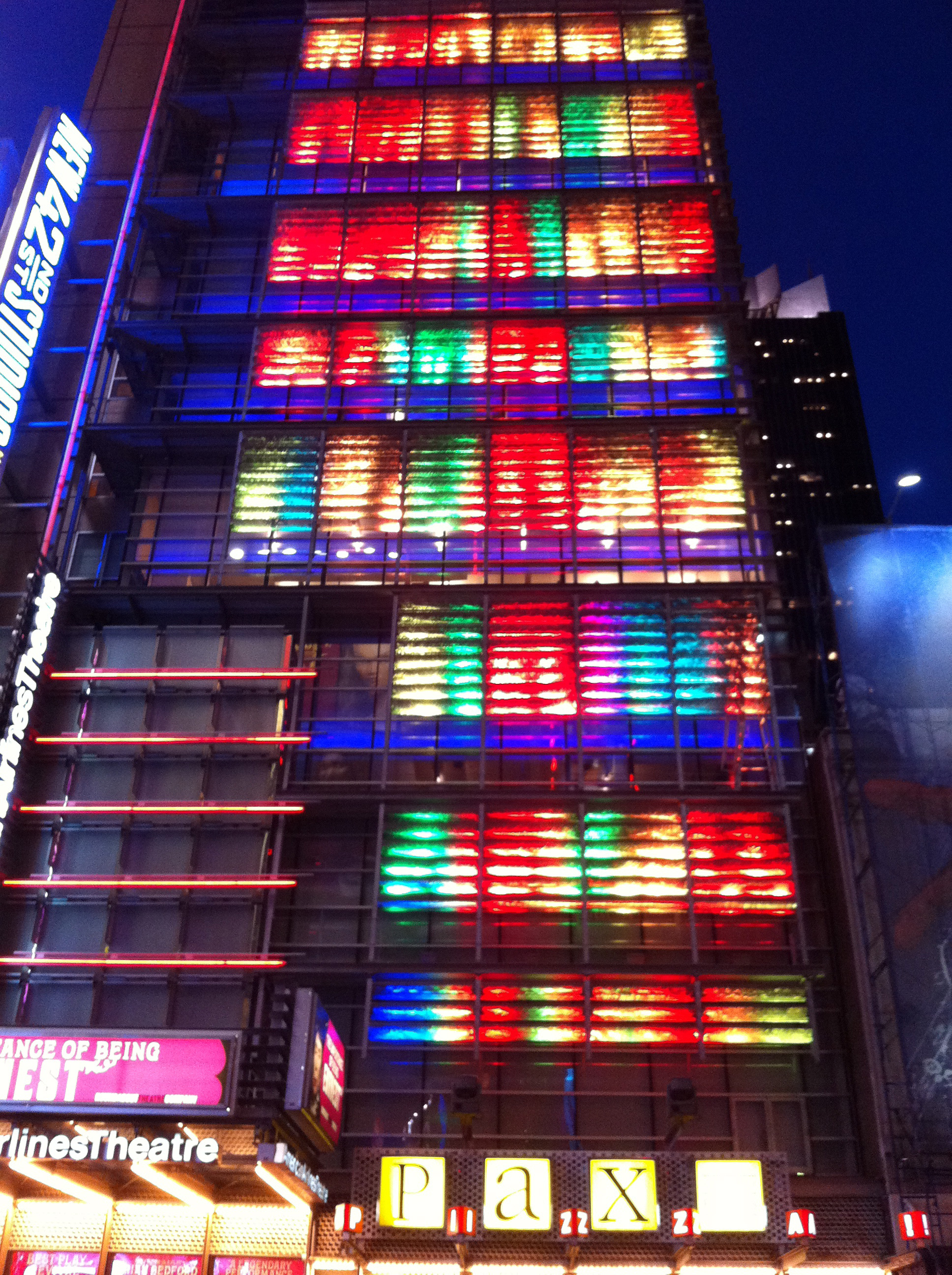 42nd Street Studios, 229 West 42nd St, NYC. The building has a framework of slats covering the facade (they are steel blades at a 30-degree angle), which at night becomes a complex display of colored fields that changes slowly at the beginning of the week, with increasing rapidity as the weekend approaches. Photo taken Monday night August 8, 2011.